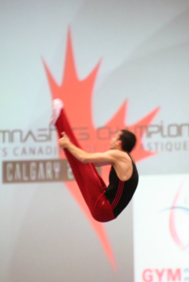 Jason Burnett at Canadian Nationals 2008